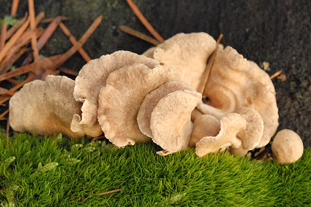 Panellus stipticus from Commanster, Belgium. The determination of the species shown in this picture has been verified.